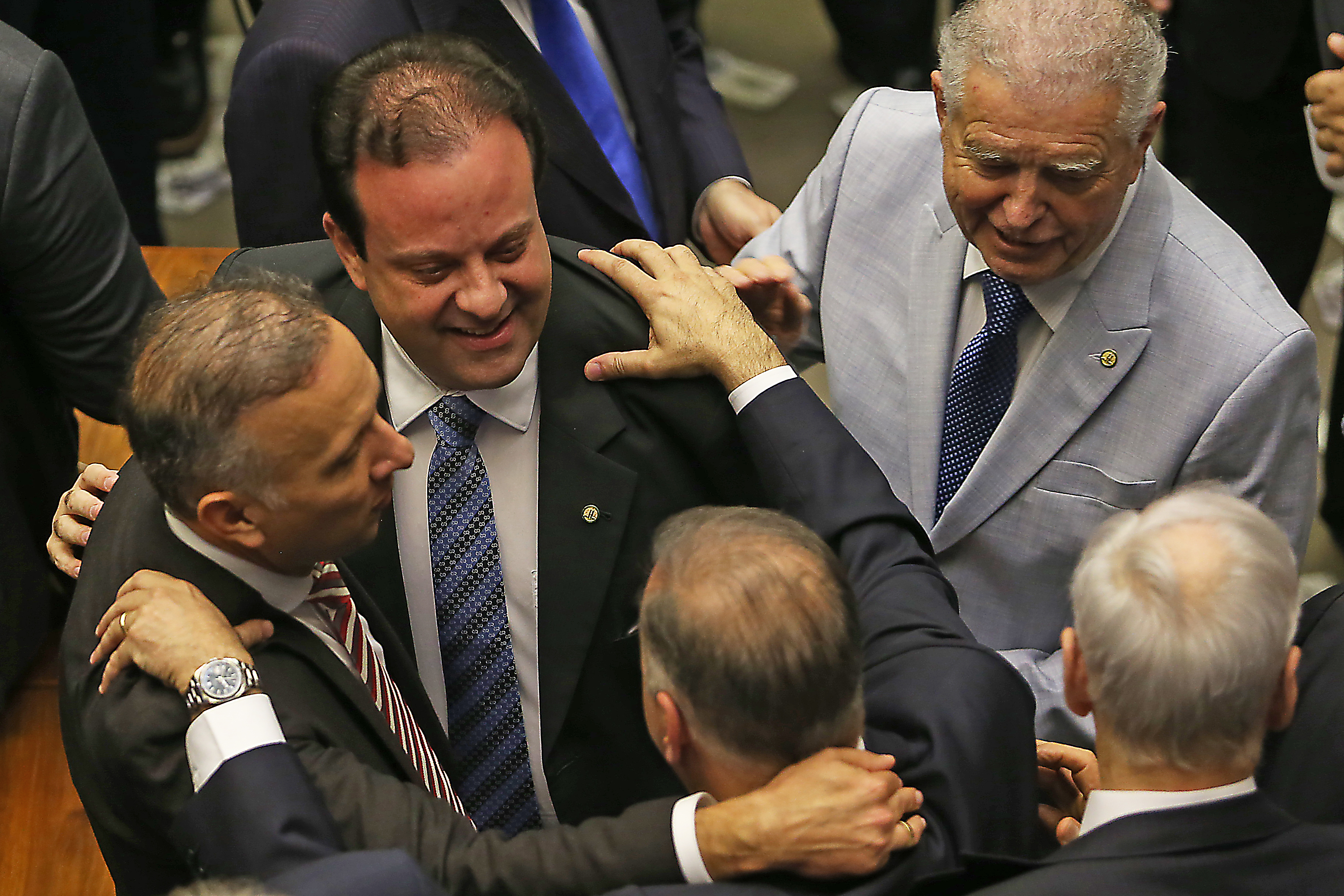 Brasília - Câmara rejeita autorização para investigar o presidente Michel Temer. Deputados governistas comemoram resultado (Wilson Dias/Agência Brasil)